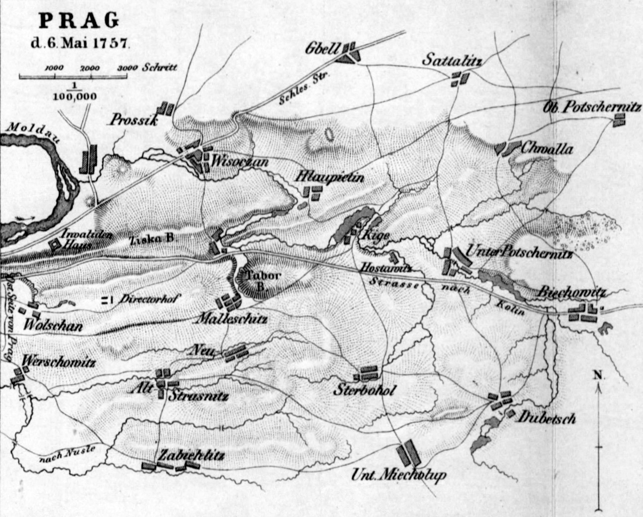 Image extracted from page 1079 of Deutsche National-Bibliothek. Volksthümliche Bilder und Erzählungen aus Deutschlands Vergangenheit und Gegenwart. Herausgegeben von F. Schmidt. Bd. 1-12', by SCHMIDT, Ferdinand - Jugendschriftsteller. Original held and digitised by the British Library. Copied from Flickr. Note: The colours, contrast and appearance of these illustrations are unlikely to be true to life. They are derived from scanned images that have been enhanced for machine interpretation and have been altered from their originals.